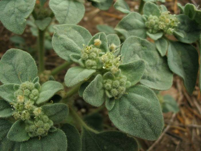 Croton setigerus syn Eremocarpus setigerus at Solstice Canyon: Solstice Canyon trail, Santa Monica Mountains National Recreation Area, California, USA.